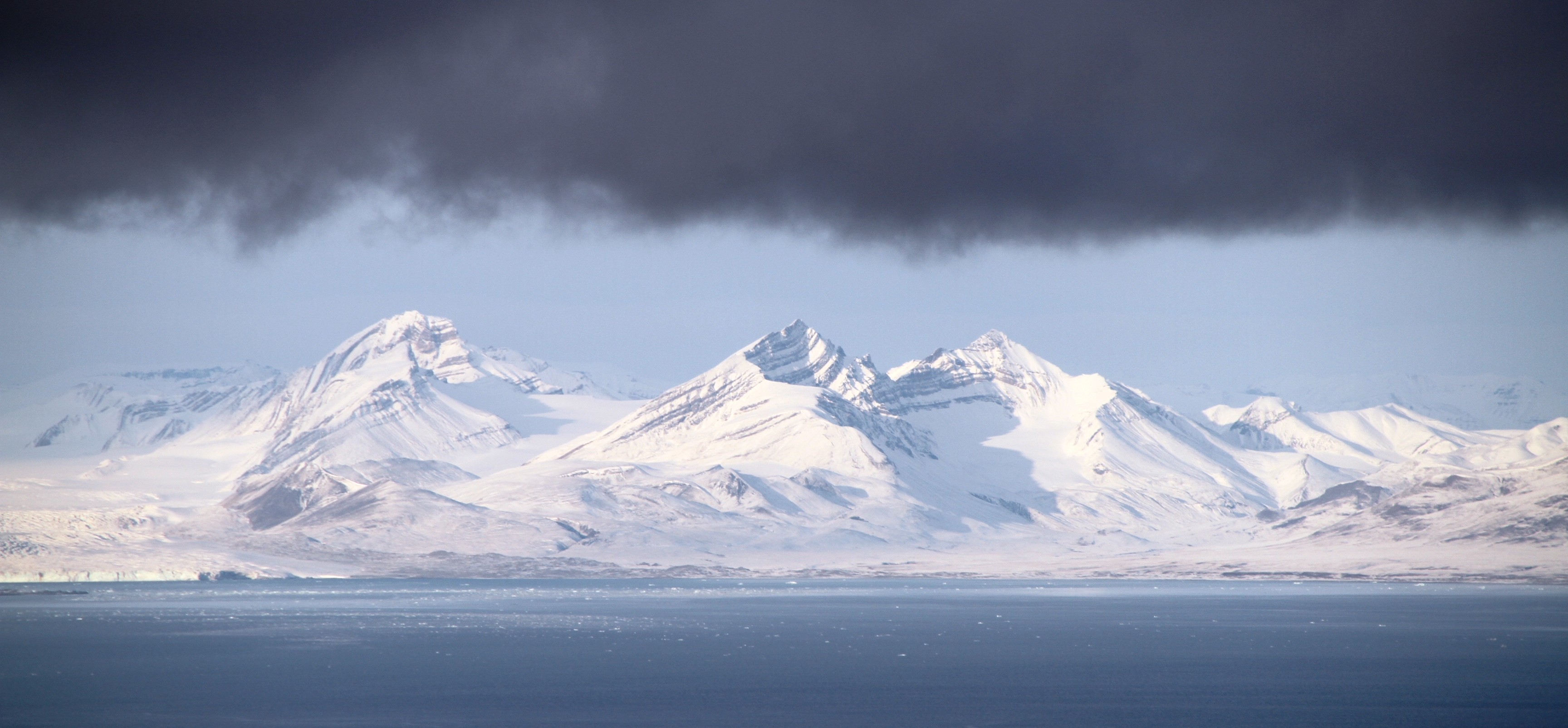 View of the nordfjorden and Dicksonfjord parts of the fjord isfjorden, central Spitsbergen, Norway